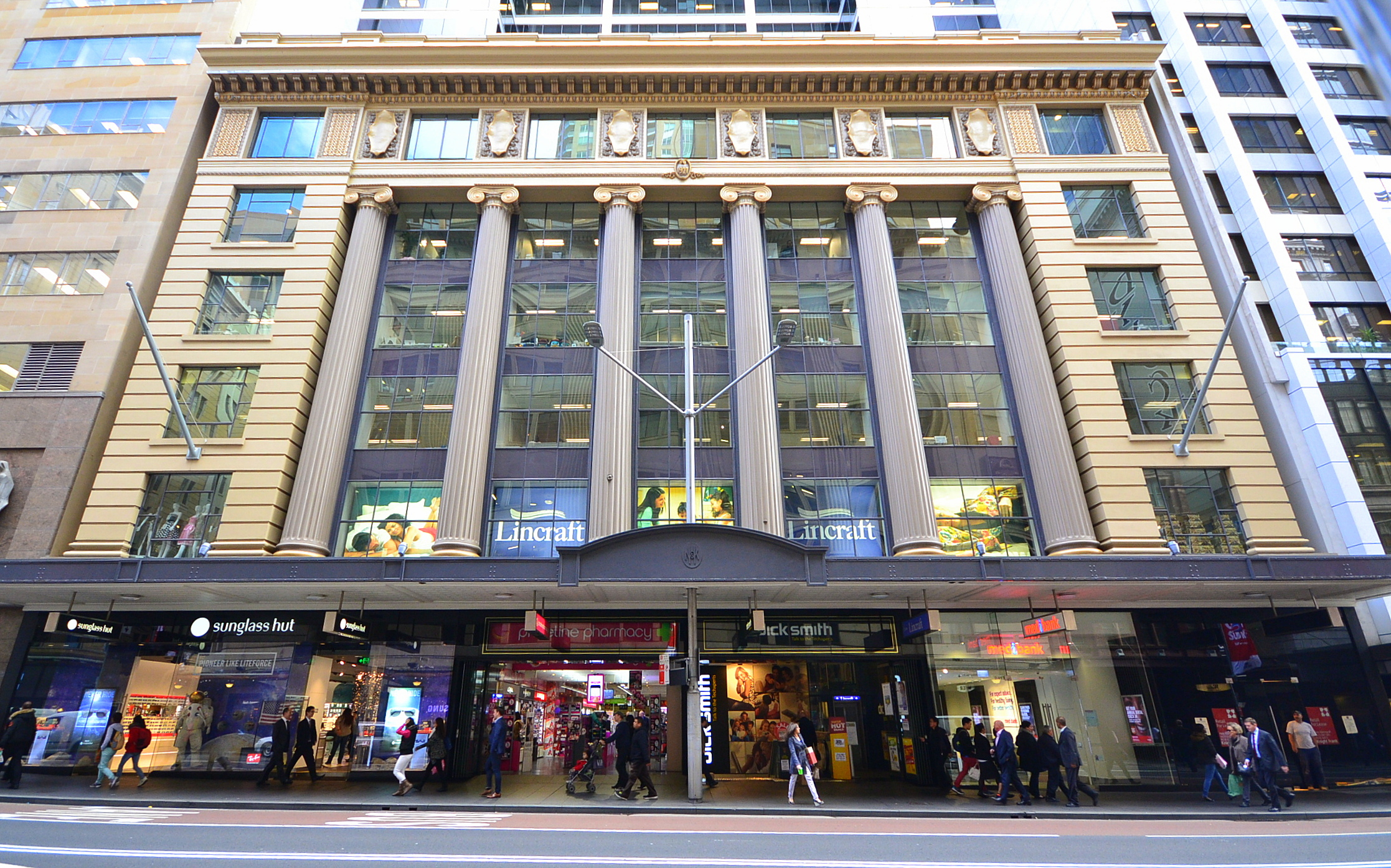 Former Nock and Kirbys building, George St, Sydney